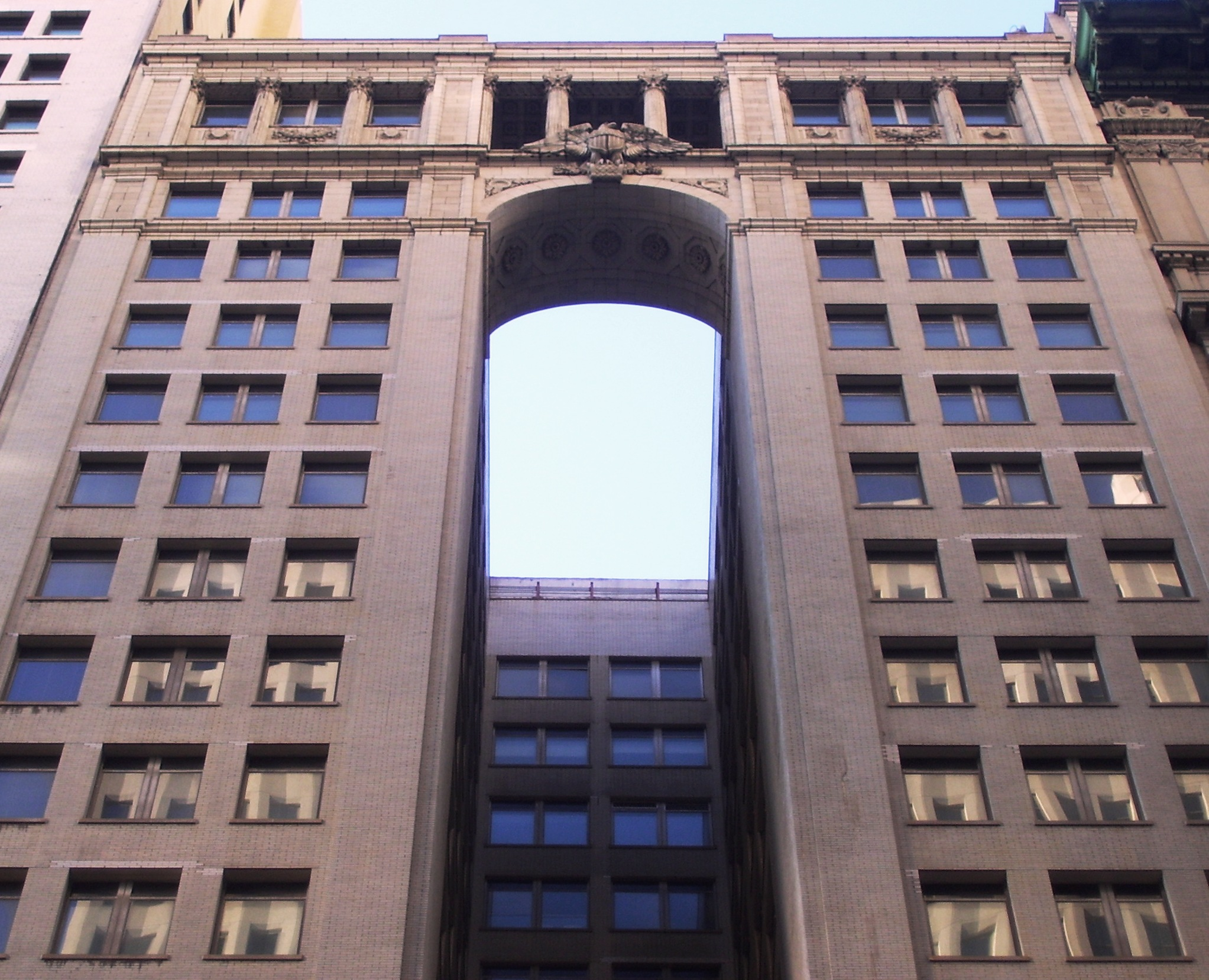 The American Express Company Building at 65 Broadway between Morris Street and Rector Street in the Financial District of Manhattan, New York City was built in 1914-1917 and was designed by James L. Aspinwall of the firm of Renwick, Aspinwall & Tucker in the neo-classical style. The 21-story building goes through to Trinity Place, and was the headquarters of American Express until 1975. The concrete and steel-frame building was designated a New York City landmark in 1995. (Source: Guide to NYC Landmarks (4th ed.))